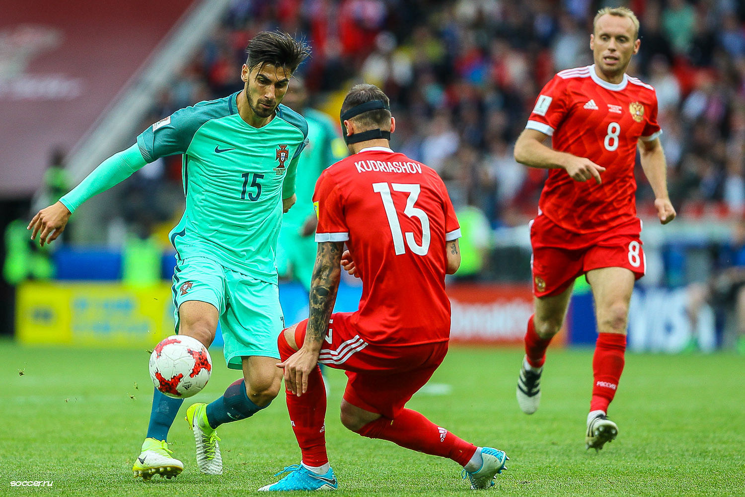 Russia VS. Portugal 0 - 1, 21 June 2017